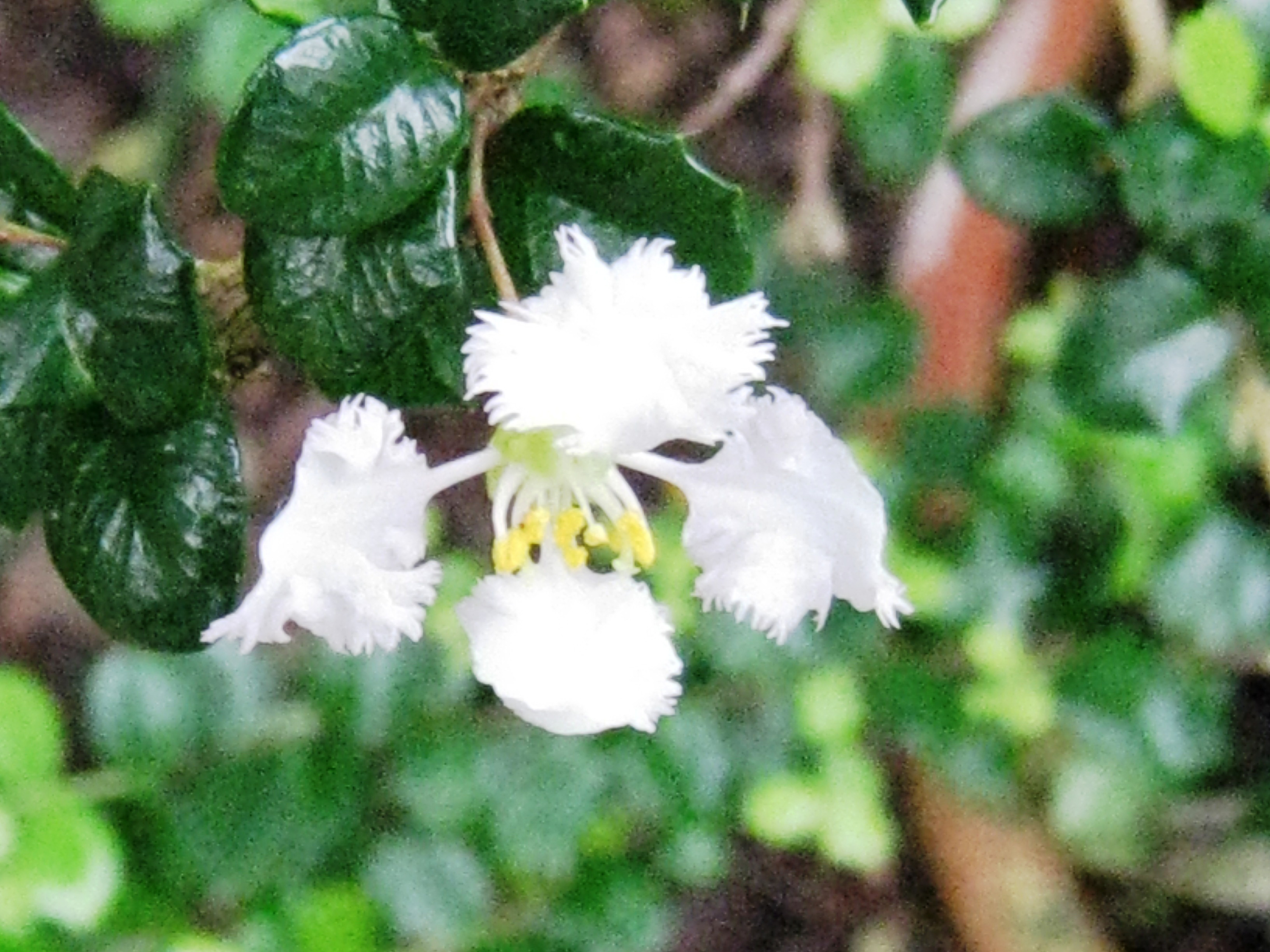 Specimen in cultivation at the Botanical Garden, University of Copenhagen, Denmark.